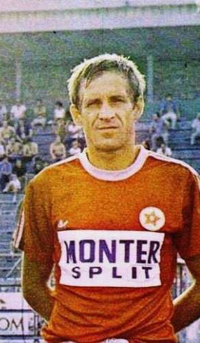 Retired Bosnian footballer and football manager Franjo Vladić pictured in November 1971.